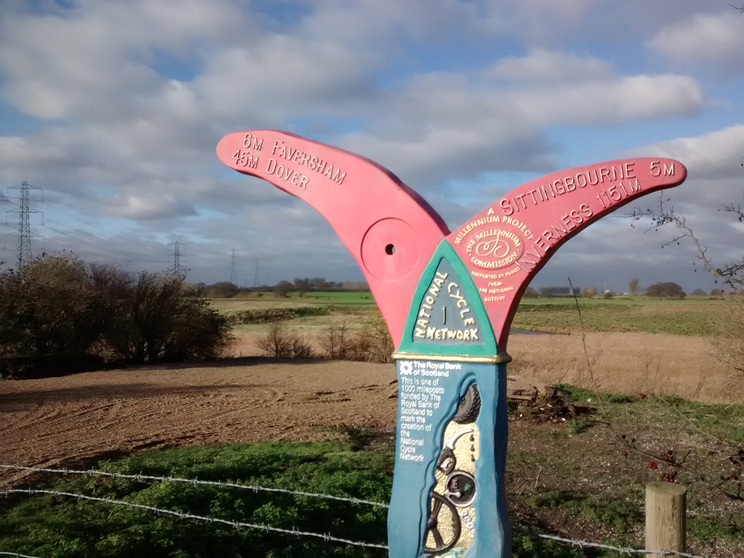 A milepost on NCN1 Milepost at Conyer, Kent.